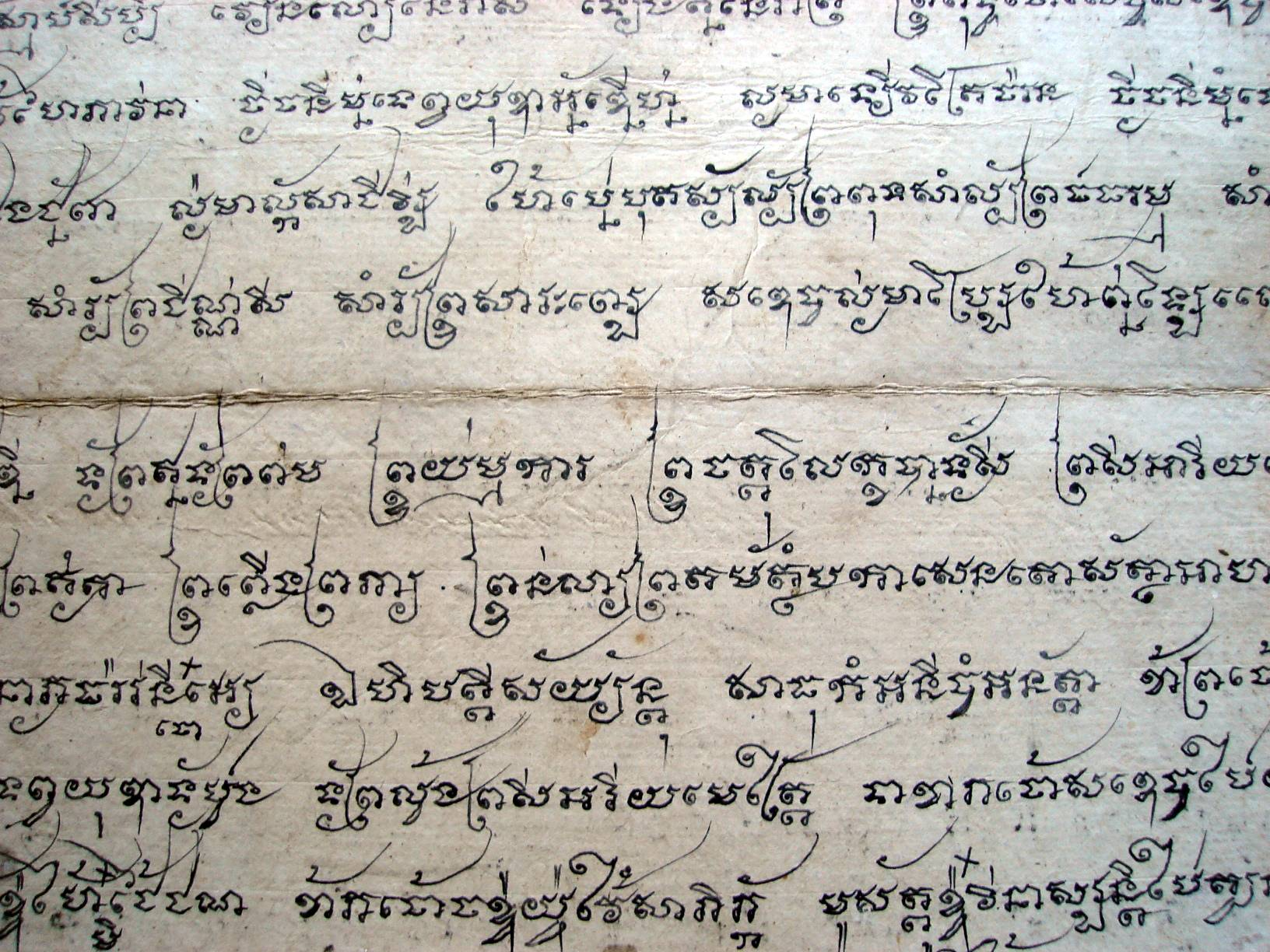 Bhuddha Sutra (Thai-Khmer Font) in Thai textbook (Thai long book made of pulp from trees of the family Uricaceae). at Wat Khung Taphao, Ban Khung Taphao, Khung Taphao subdistrict, Mueang Uttaradit, Uttaradit Province, Thailand.) on December 2, 2008.